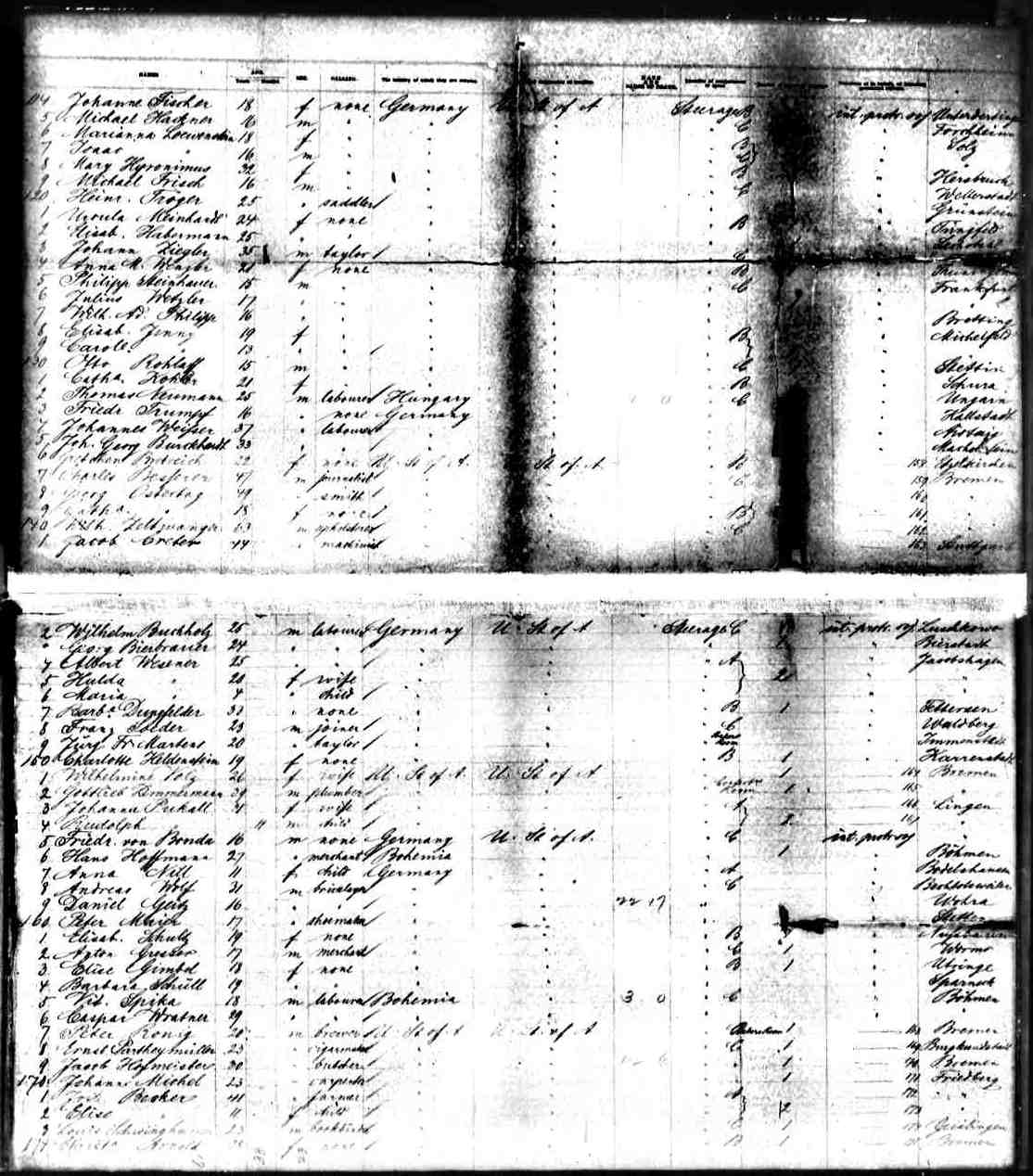 U.S. Immigration records. Line 33 mentions "Friedr. Trumpf", age 16, born in "Kallstadt", Germany.